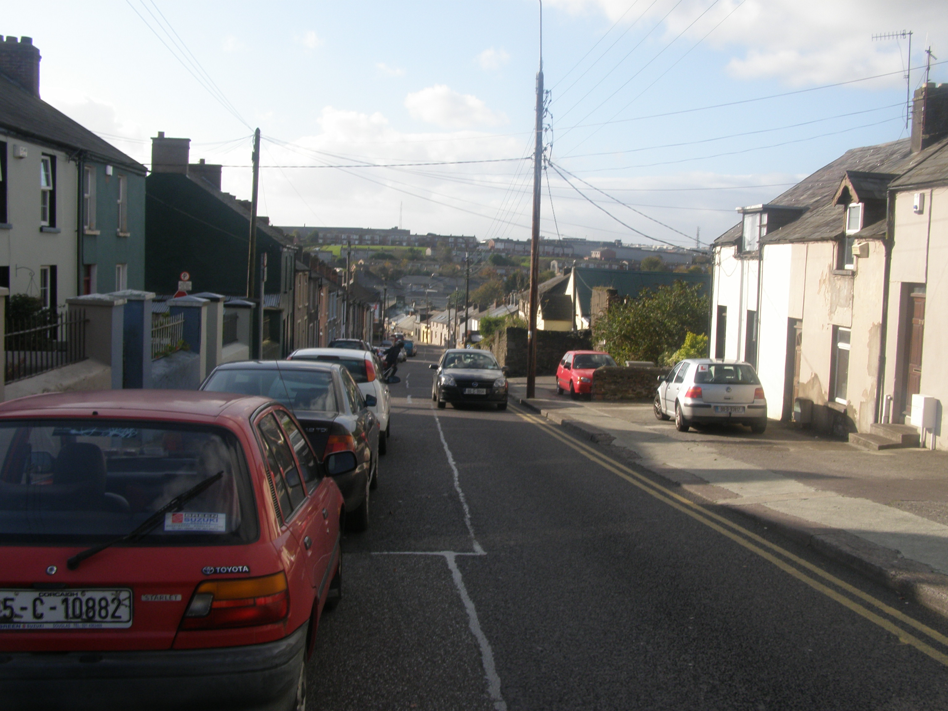 Street in Mayfield.